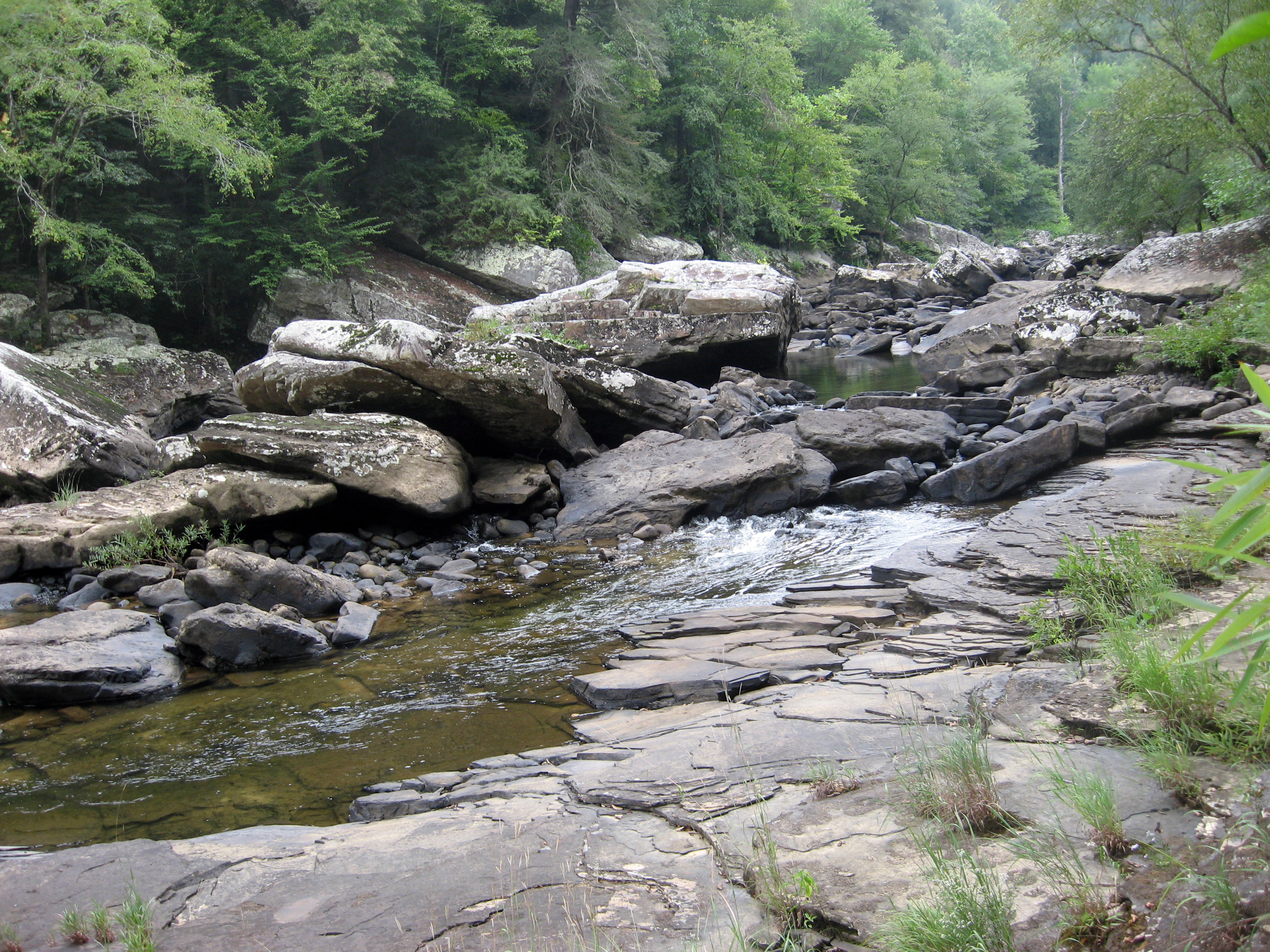 Daddys Creek at Catoosa Wildlife Management Area, Cumberland County, Tennessee.